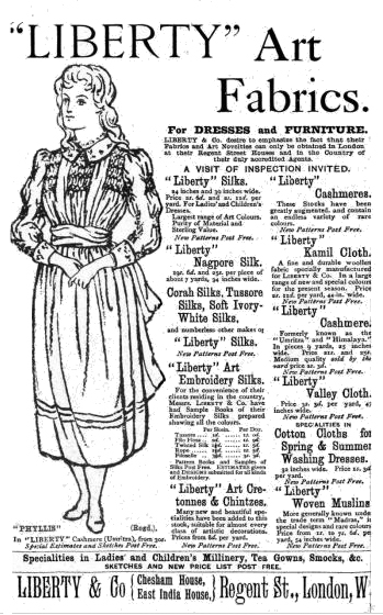 Liberty of London "asrt fabrics" advertisement, May 1888, form the New Gallery (London) Catalogue for Summer 1888